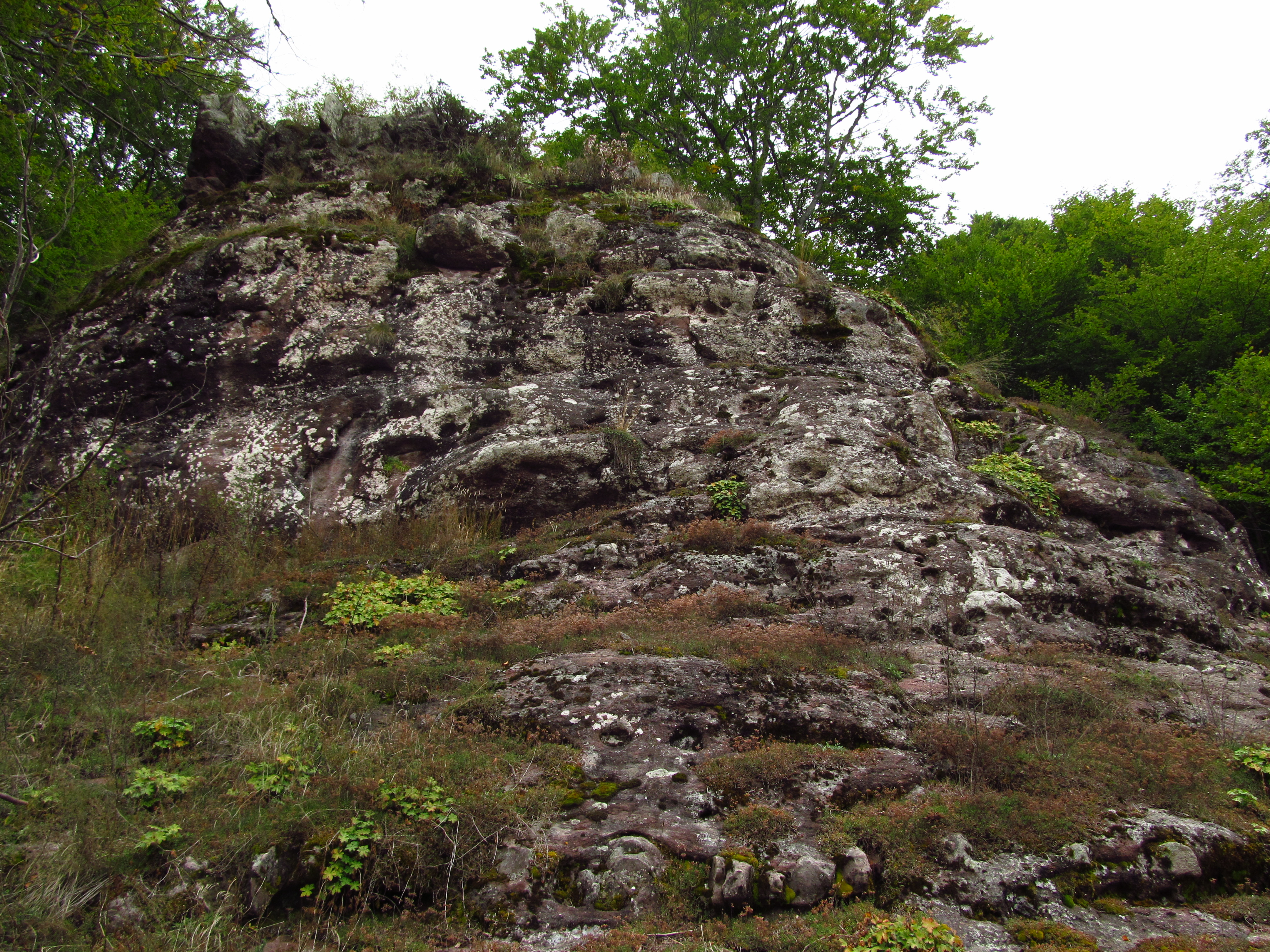 Conglomerate at Stara planina (Goveška poljana, E Serbia).